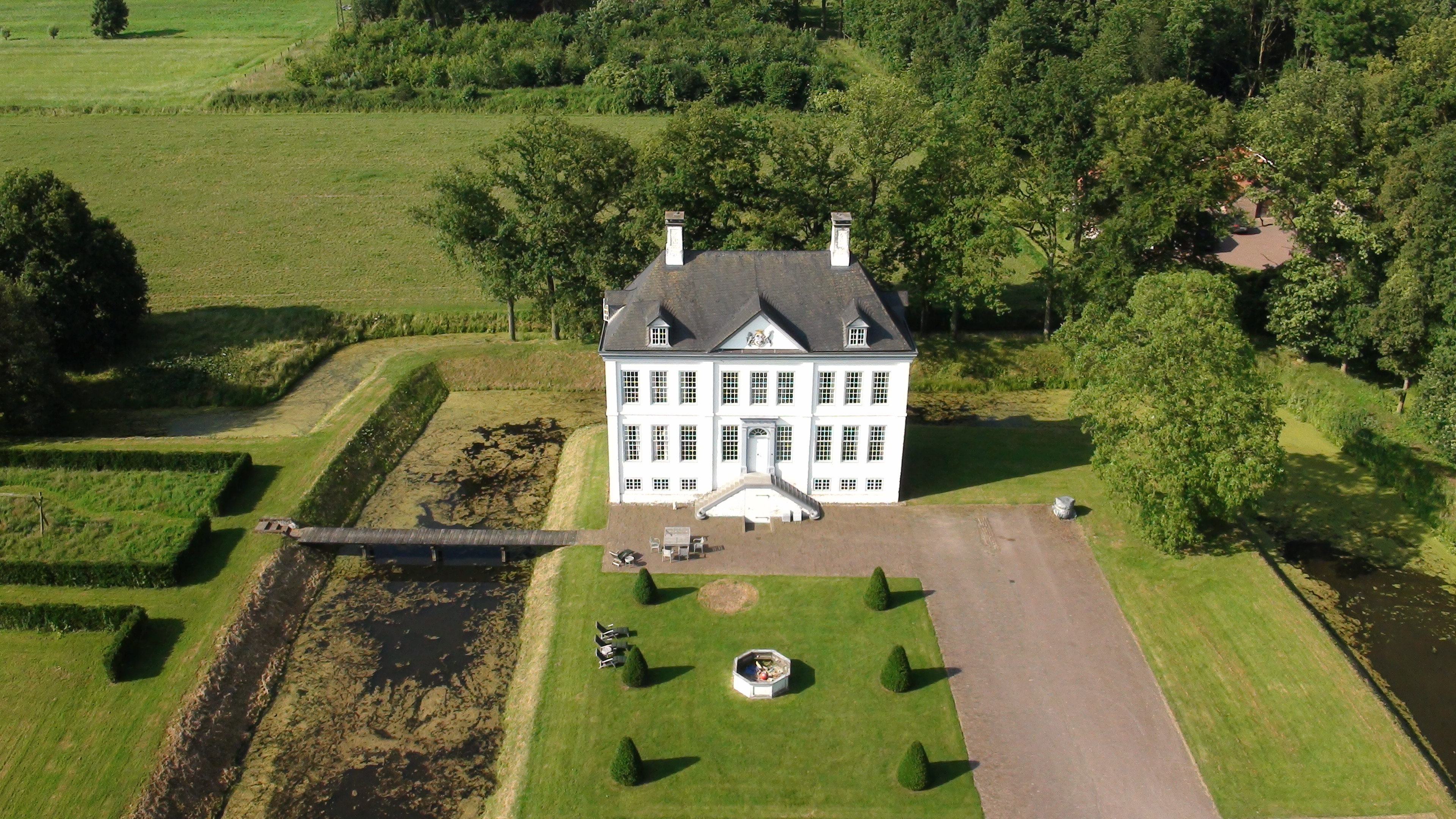 Haus Kolk